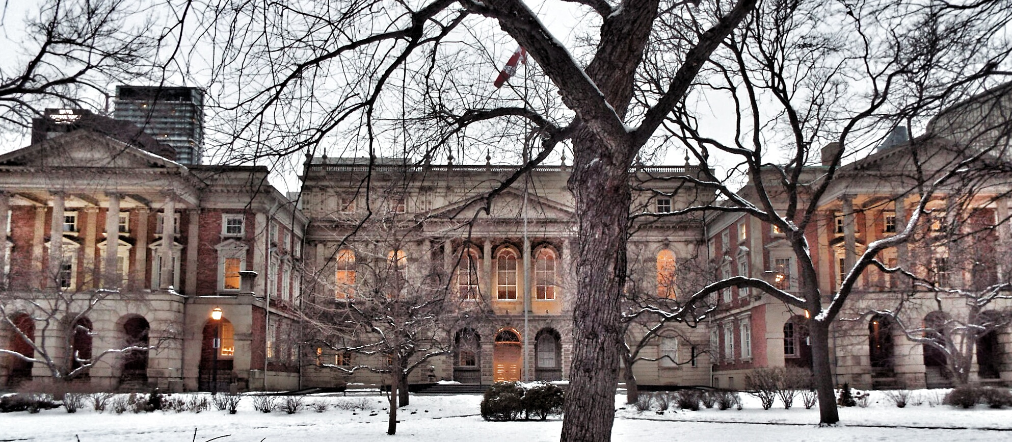 Historic building in downtown Toronto on an early snowy morning. Ontario courthouse.